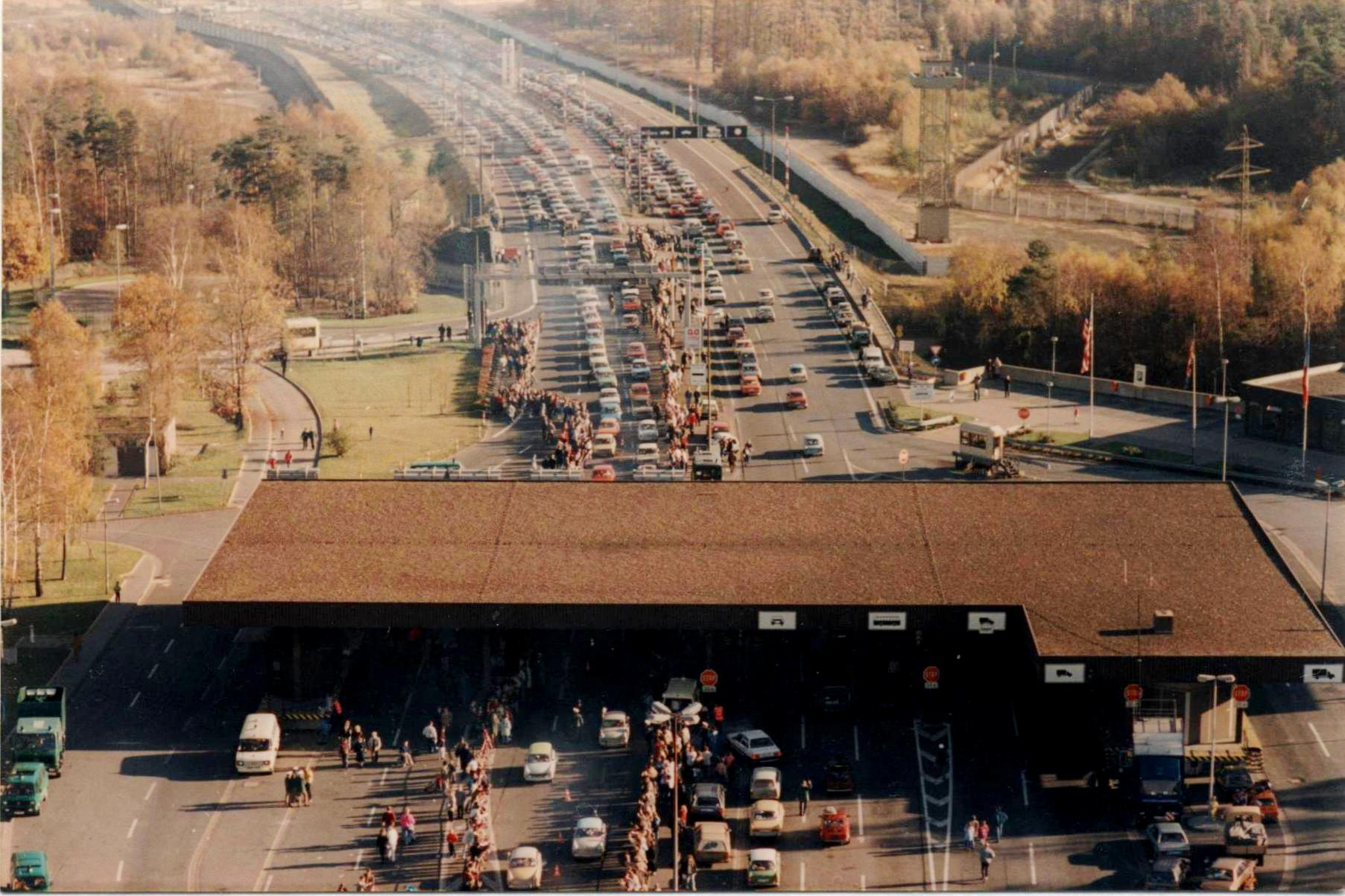 Checkpoint Helmstedt after the border opening in November 1989